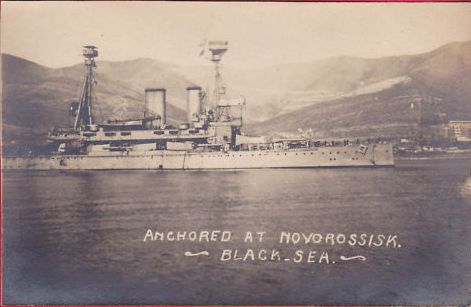 HMS Lord Nelson at Novorossysk port, Black Sea. Allied Intervention in the Civil war of Russia